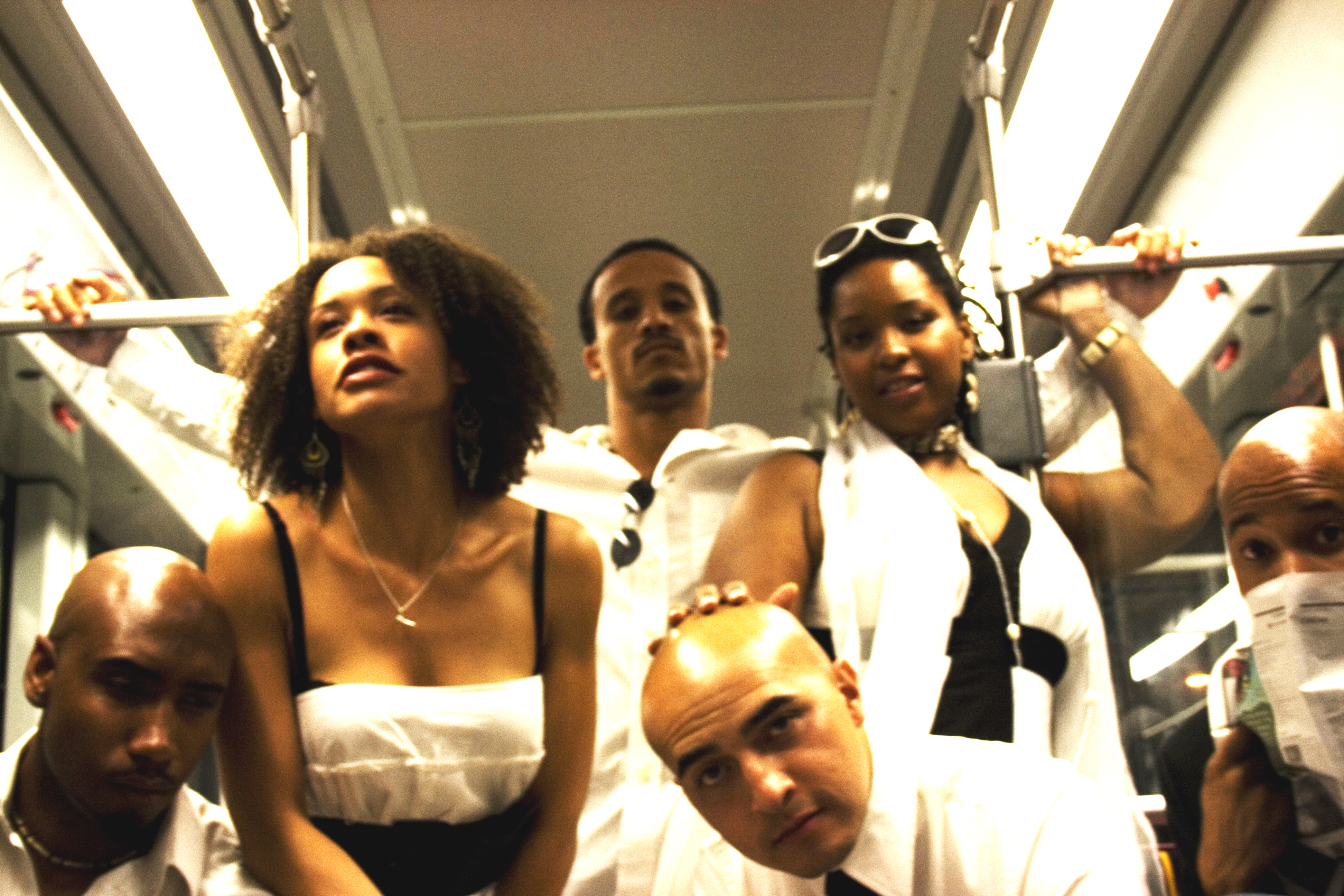 Slam Nuba team; Lucifury, Bianca Mikahn, Ayinde Russell, Bobby Lefebre, Original Woman, Panama Soweto